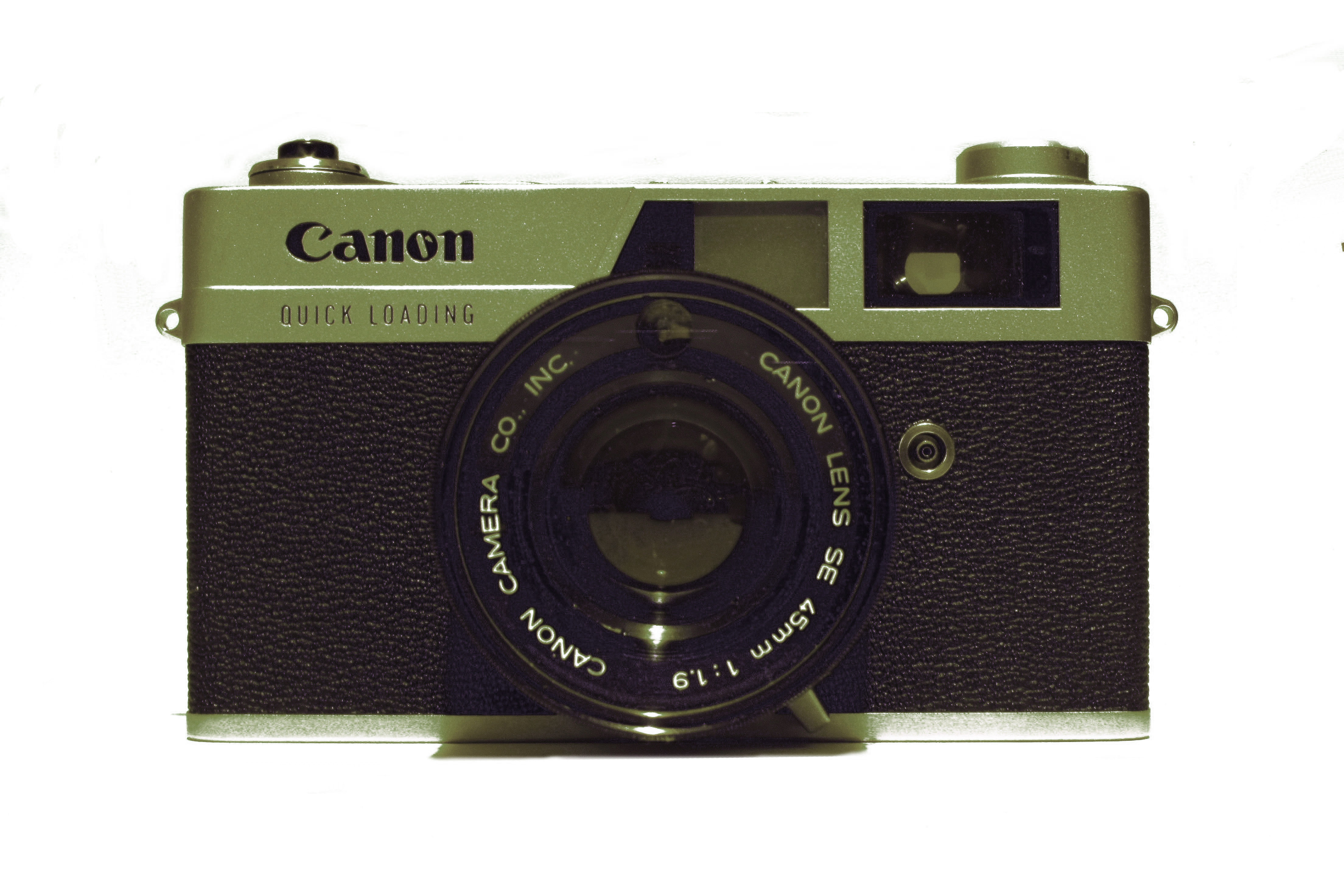 Canonet QL19